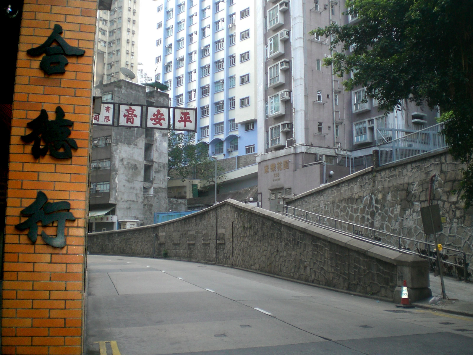 雀仔橋, 前身名為"雀仔橋洗手間"